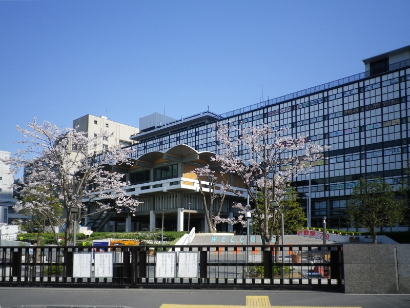 Hosei University